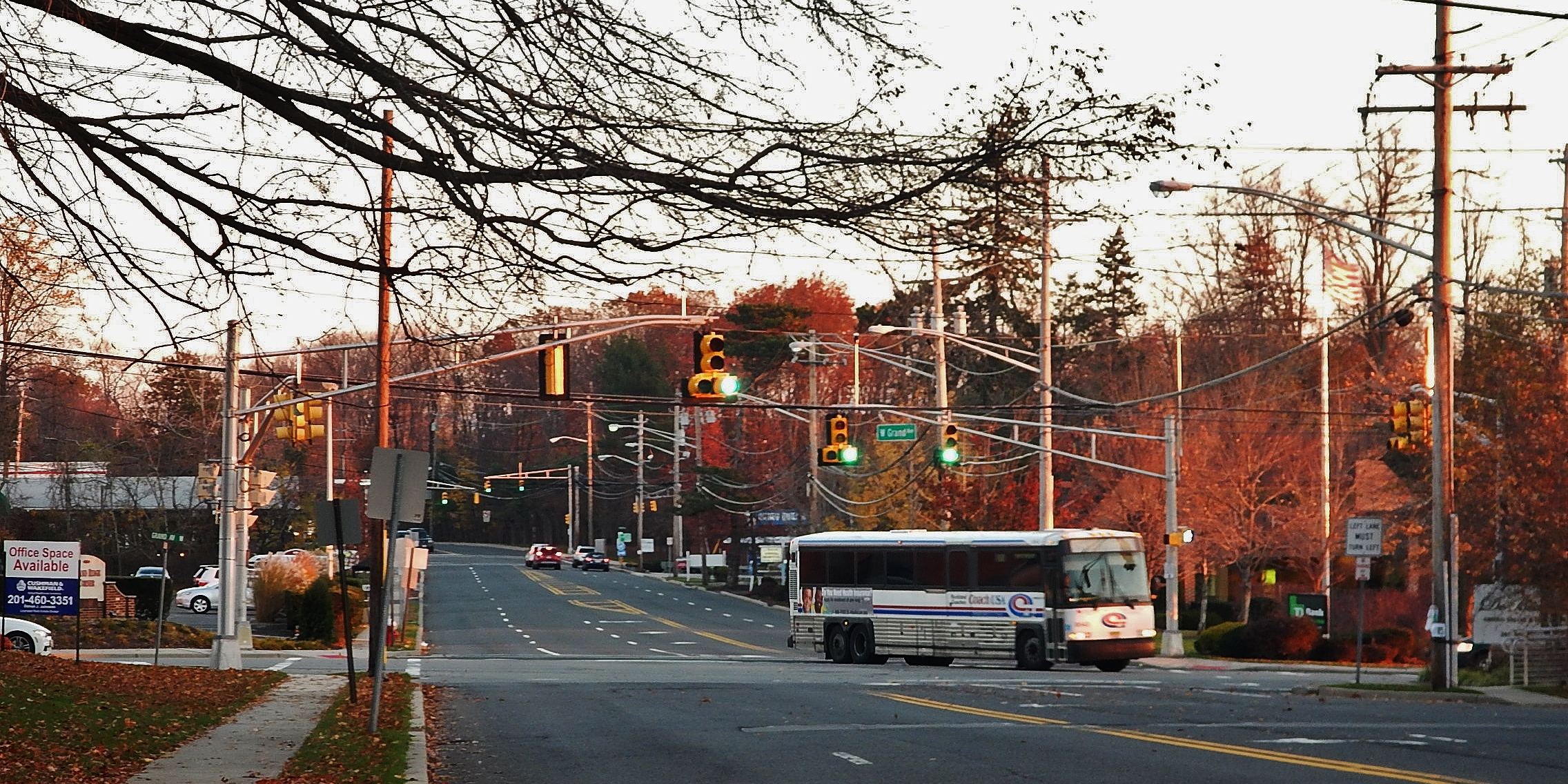 Chestnut Ridge Rd